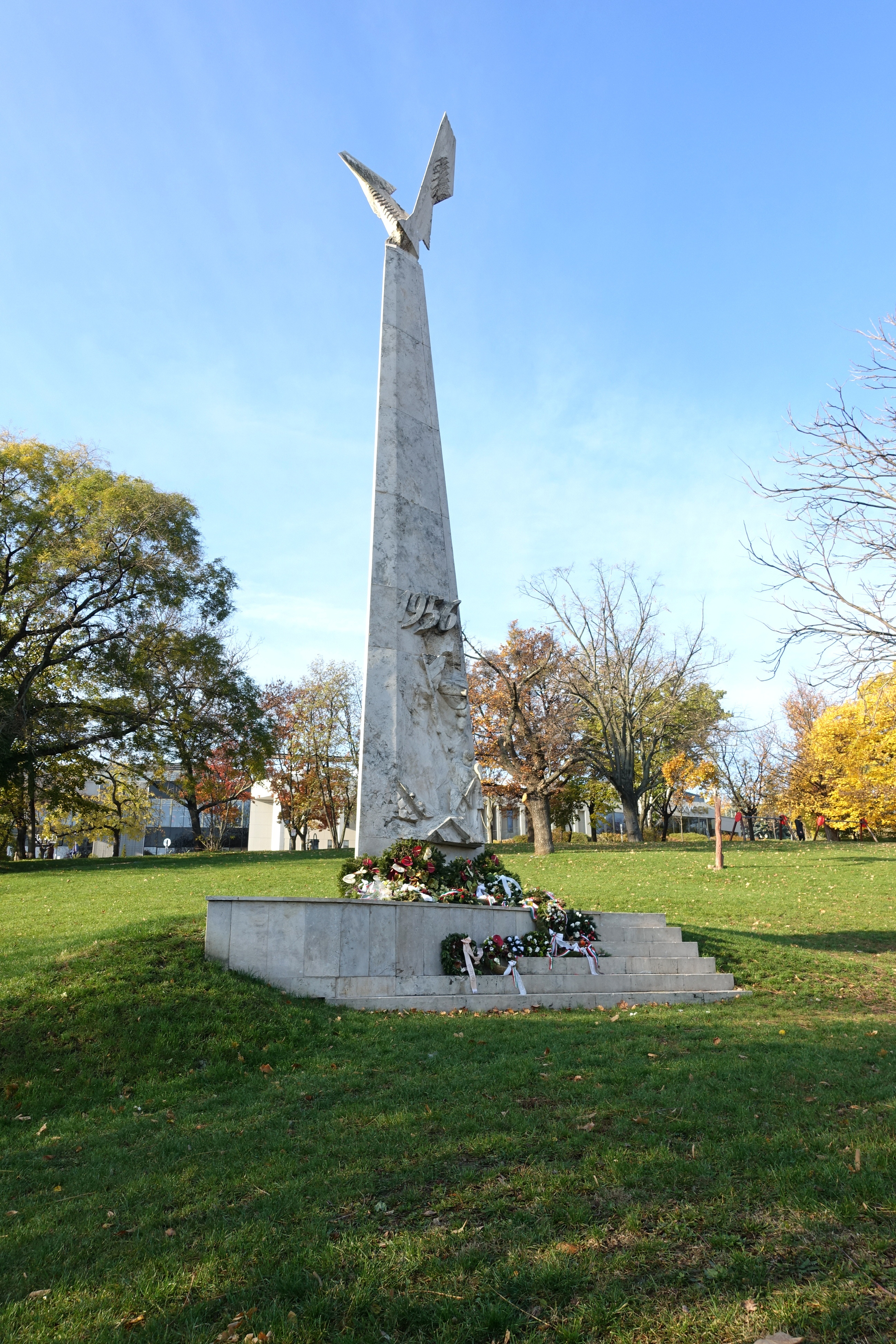 Memorial of the 1956 Revolution in Tabán Park, erected in 1996. Stone obelisk with a relief of freedom fighters and a stylized bird on top. Location: Tabán Park, Budapest District I., Hungary. Two plaques on the back-side: (1) Erected by a generous donation of the 1956 Hungarian freedom fighters living abroad, the 1956 Monuments and Piety Foundation, and Tibor Hornyák, József Vajda Németh and György Lassan freedom fighters. 1996; (2) This monument was erected for the 40th anniversary of our revolution by the Hungarian people and the surviving freedom fighters to the memory of the martyrs and participants in remembrance of the exemplary patriotism of the heroes / Those who sacrificed his life for the motherland has not died because the future generations of posterity will remember the glorious memory of the heroes of 1956 / Board of Trustees of the 1956 Monuments and Piety Foundation